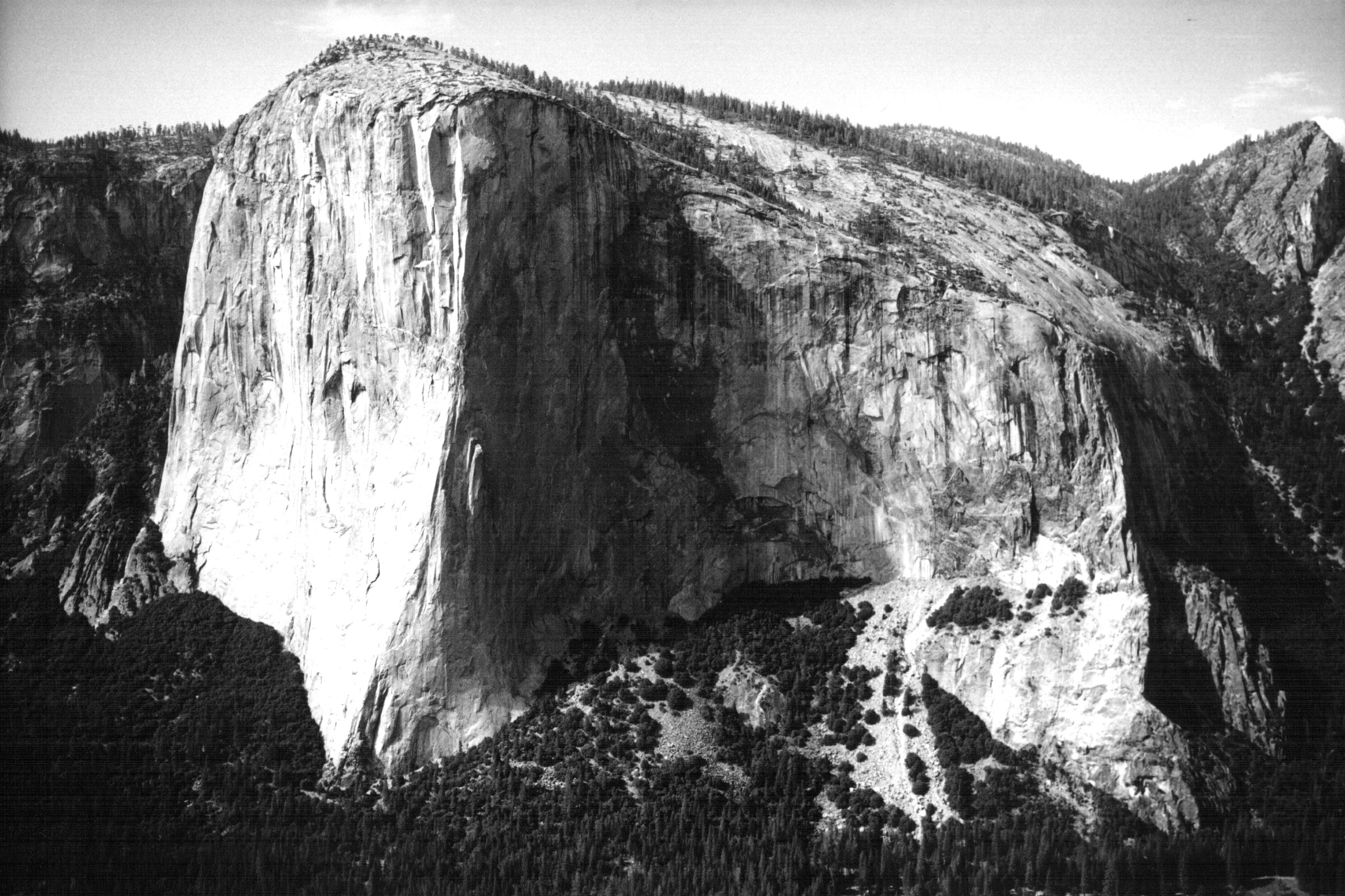 EL CAPITAN with little cloud, from the summit of Lower Cathedral Spire, Yosemite Valley, California, August 1965.